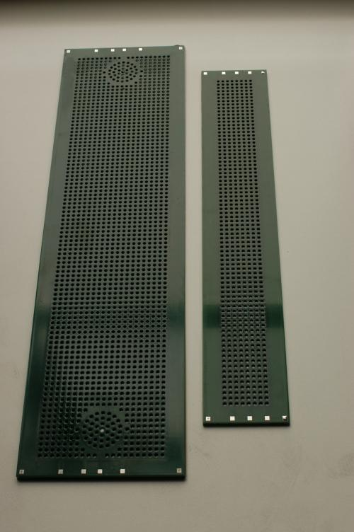 panels of an Solosound electrostatic loudspeaker